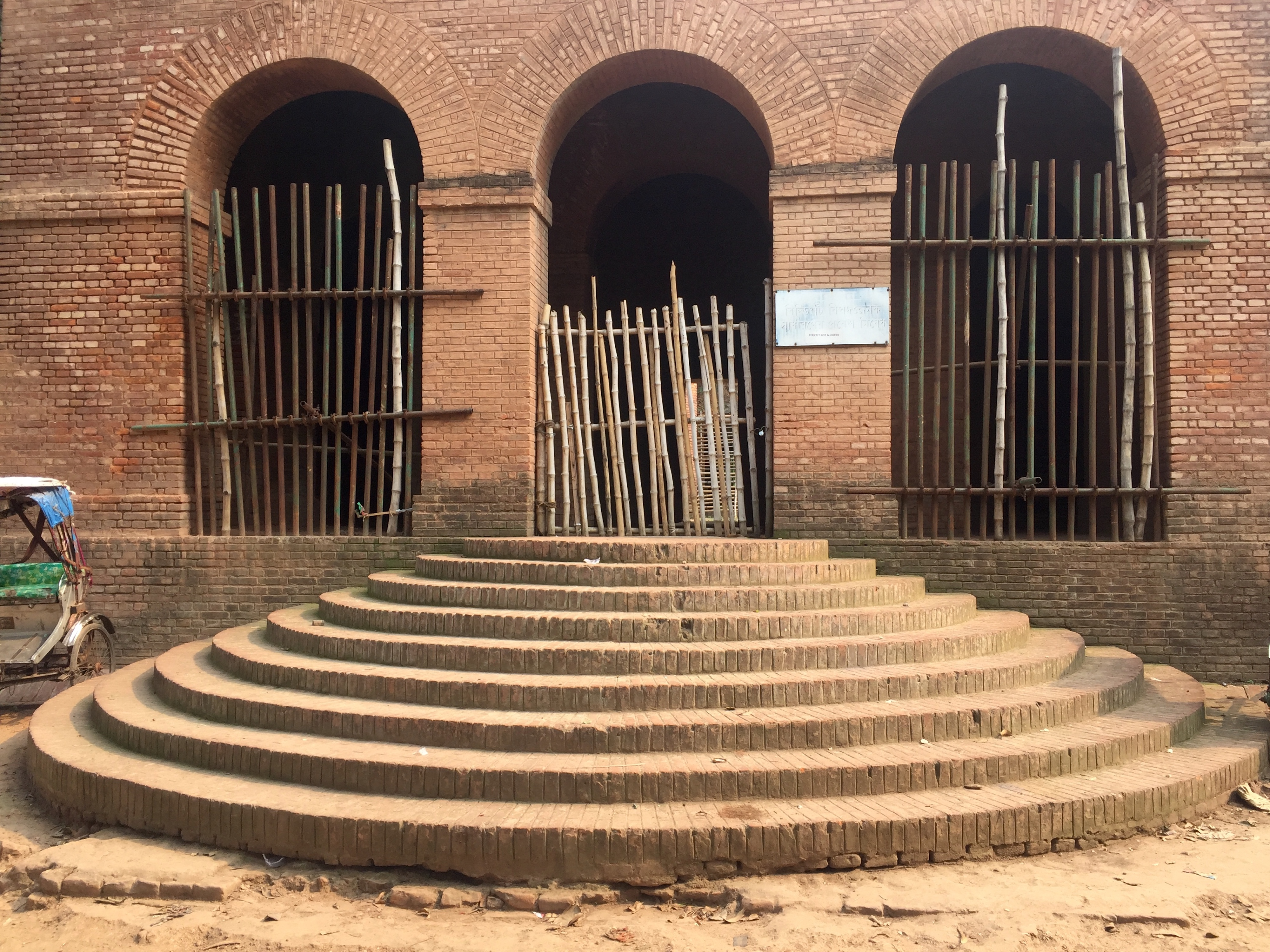 Clive House in Dum Dum area of Kolkata.